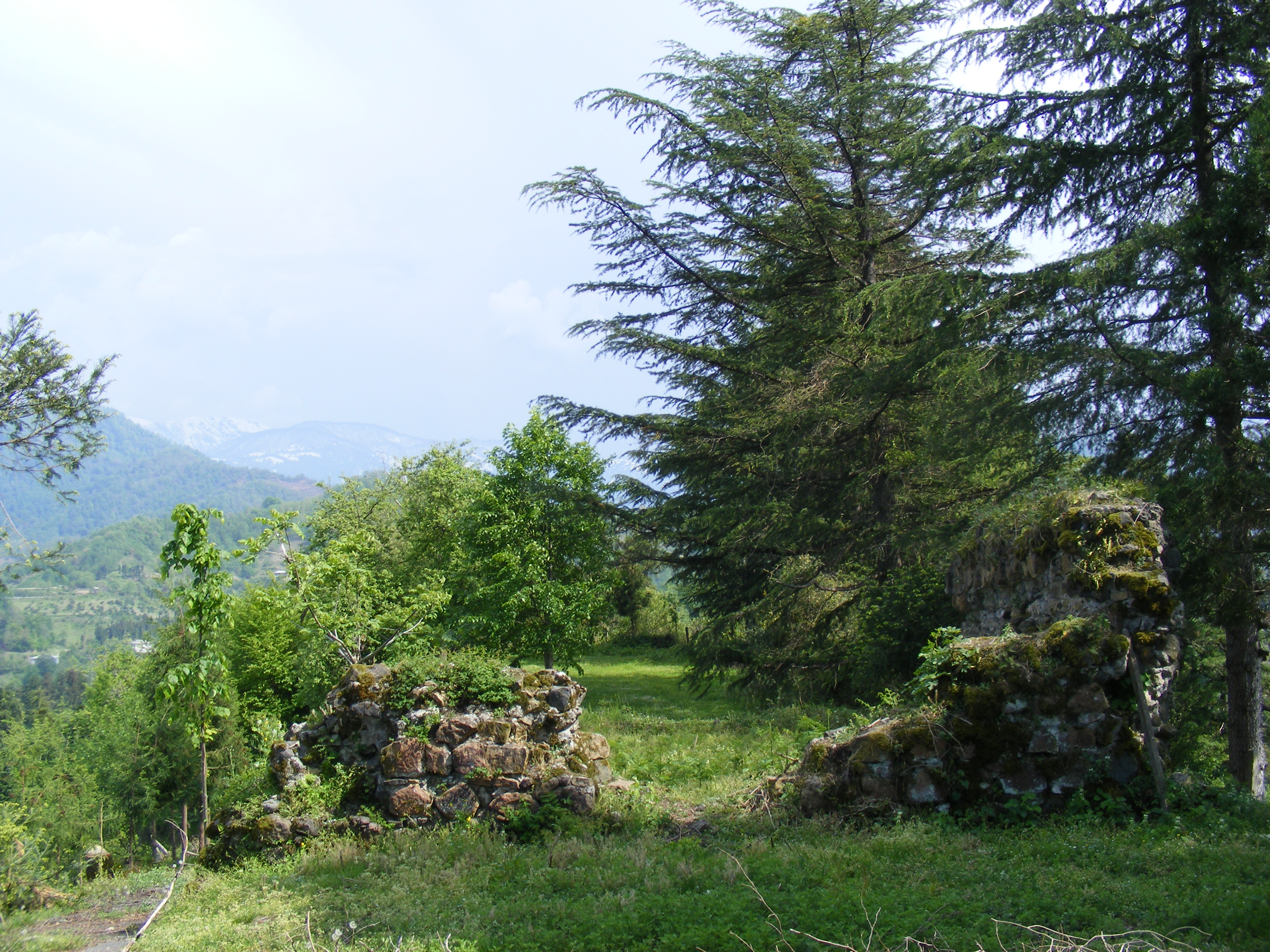 Ruins of Mamuka's Castle in Alambari